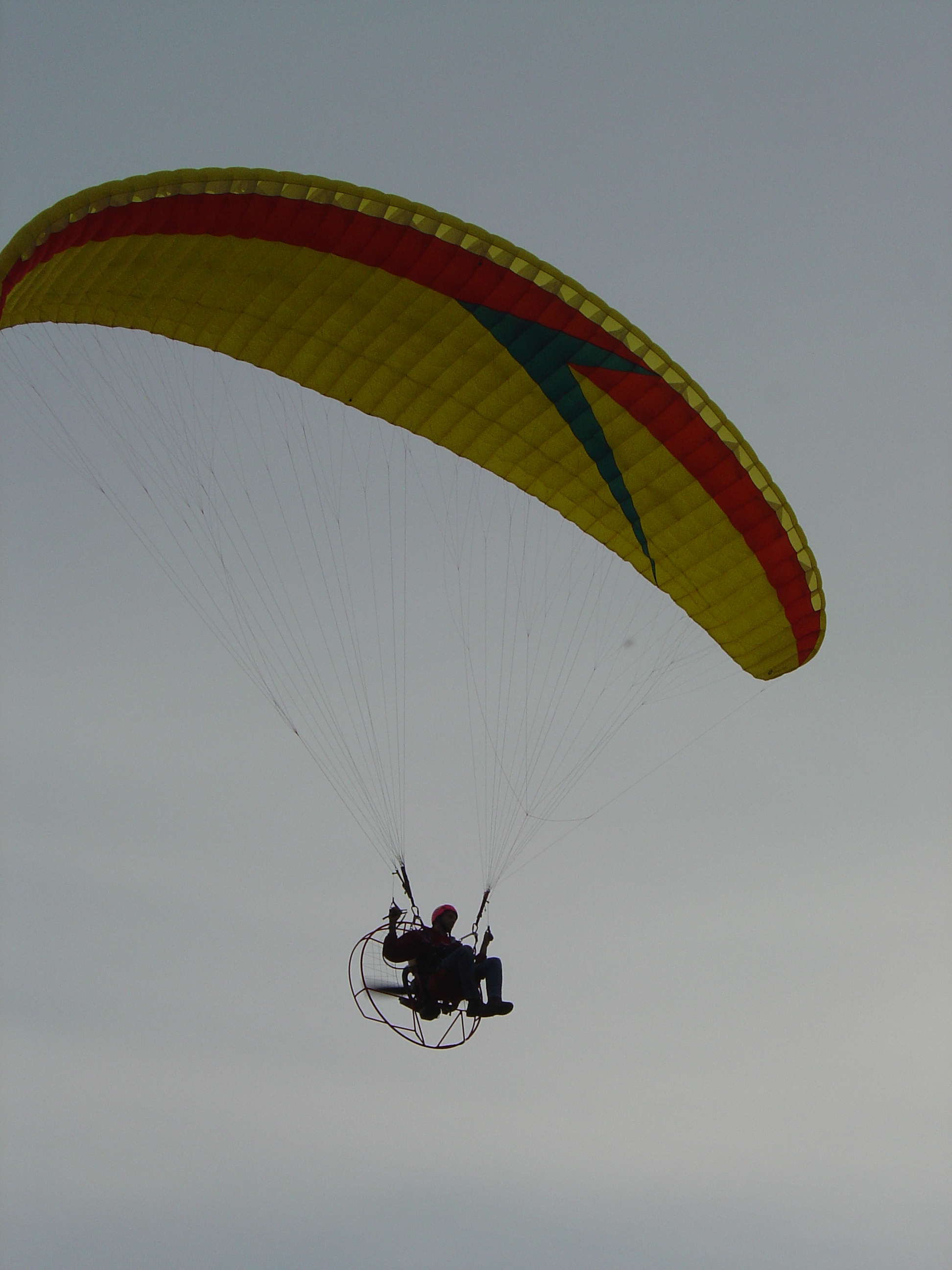 A paraglider with a motor as seen at the Weinheim air show 2003.